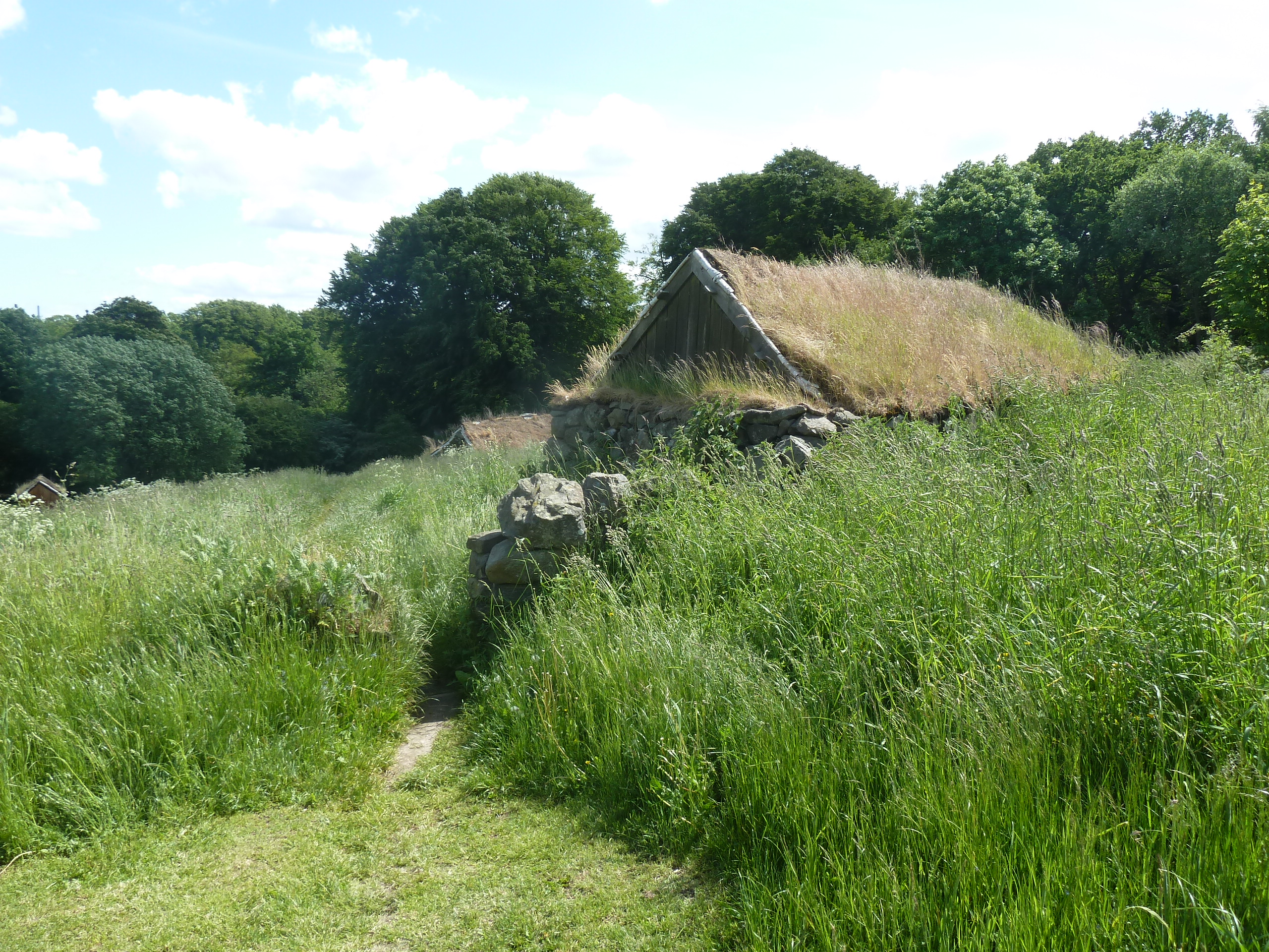 Farms from the Faroe Islands, now on Frilandsmuseet (the open air museum) north of Copenhagen.